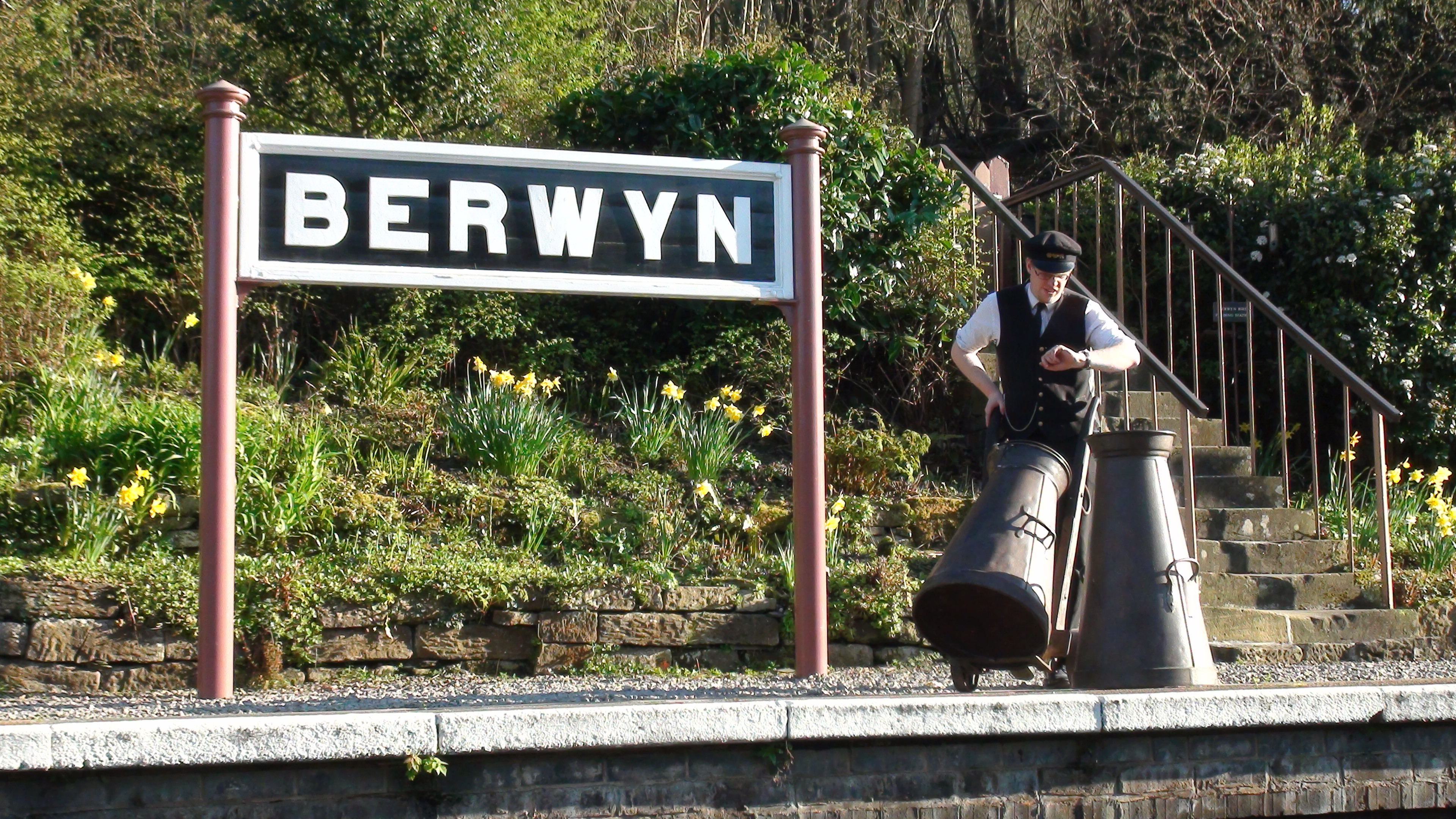 Station Porter at Work